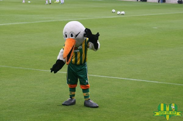 Storky